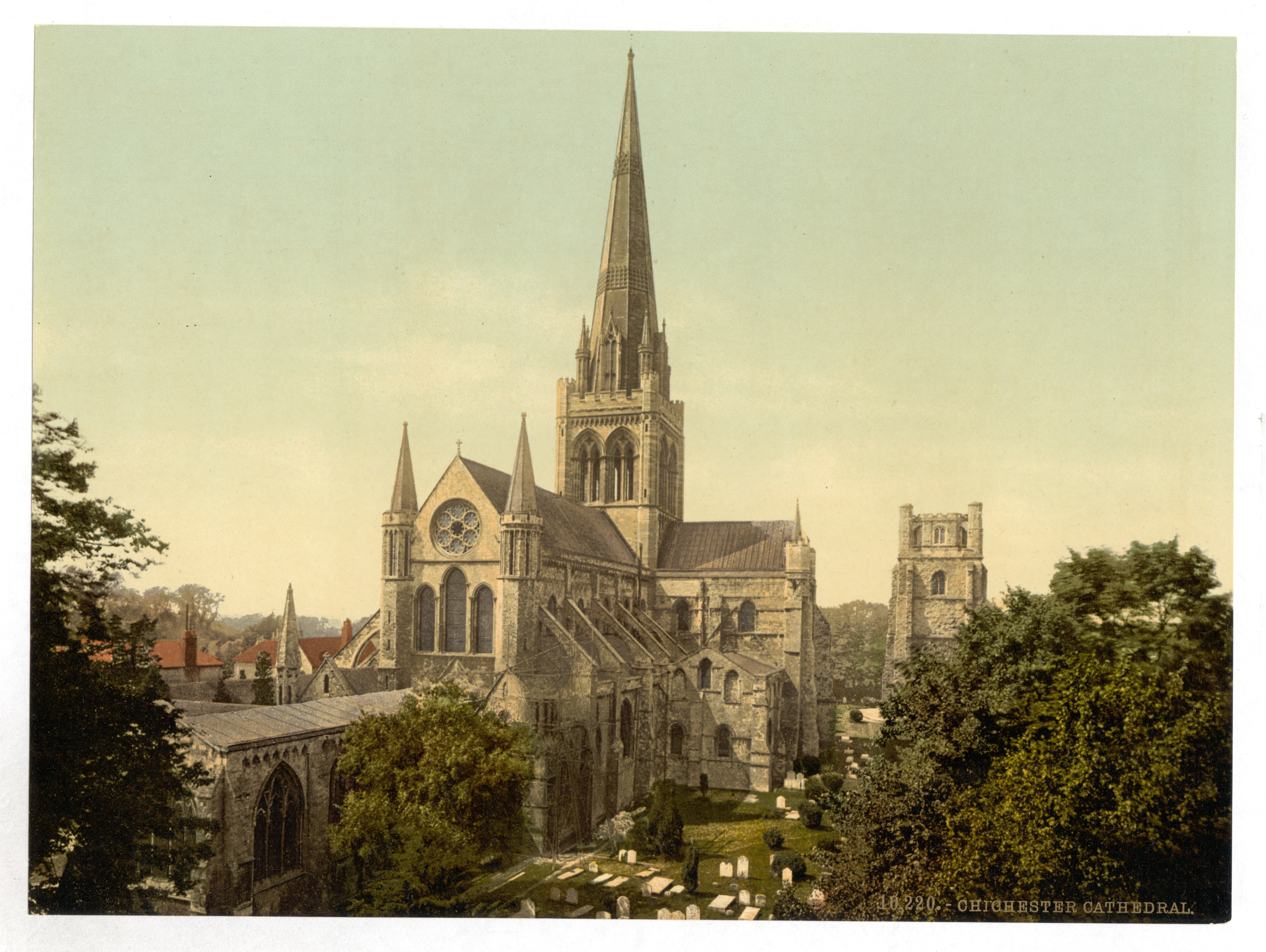 Forms part of: Views of the British Isles, in the Photochrom print collection.; More information about the Photochrom Print Collection is available at Title from the Detroit Publishing Co., Catalogue J-foreign section, Detroit, Mich. : Detroit Publishing Company, 1905.; Print no. "10220".